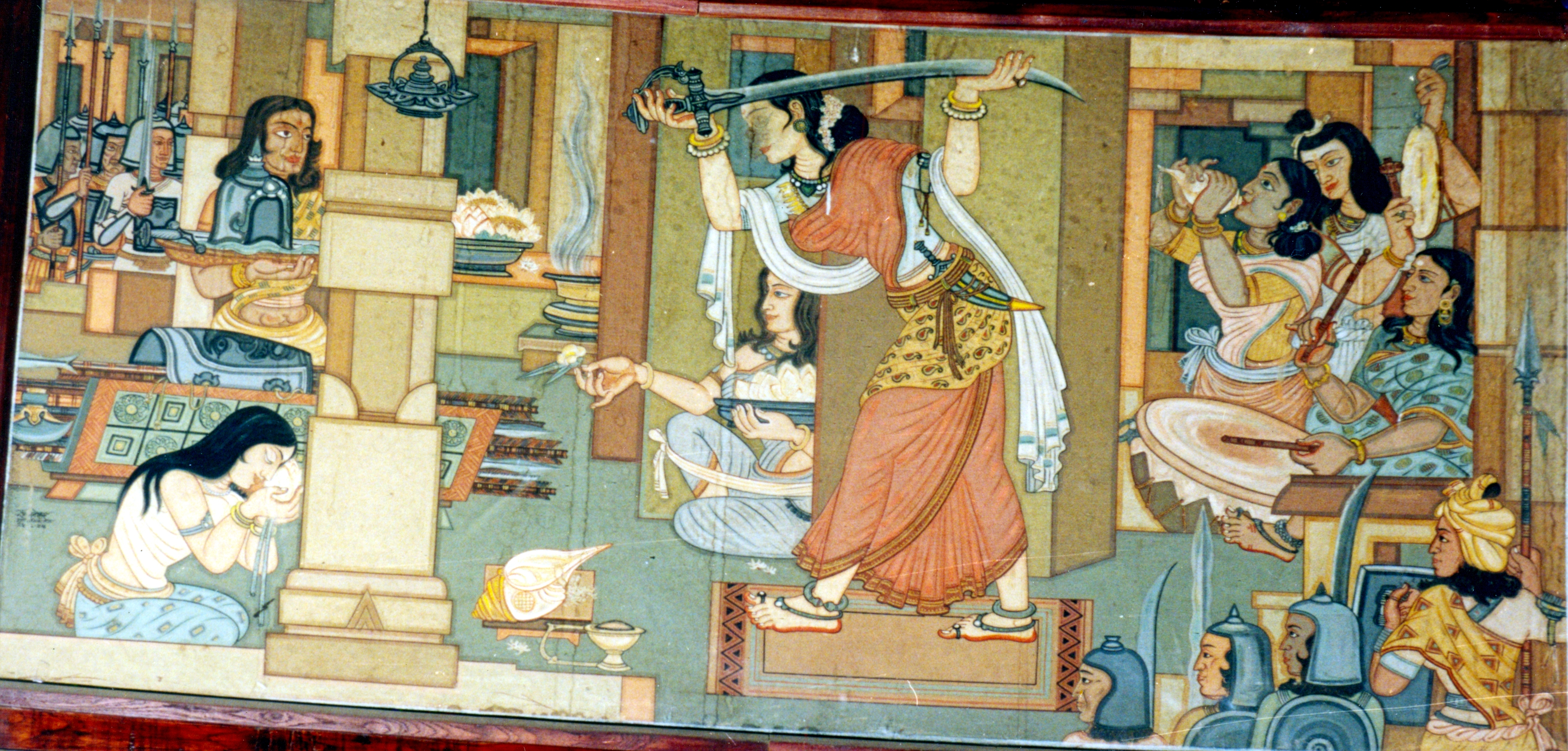 First unambiguous painting on Maharani Durgavati, shown gearing-up for the Battle of Narrai. This fresco-secco in tempera by Beohar Rammanohar Sinha is in the Shaheed-Smarak or Martyrs'-Memorial Auditorium in Jabalpur MP (India). Maharani Durgavati sacrificed her life, along with her Prime-Minister Beohar Adhar Simha and his battalion, fighting against Emperor Akbar’s corps of Mughal-Army in 1564 CE. The artist Beohar Rammanohar Sinha, a descendent of Beohar Adhar Simha, is very well known the world over for illuminating the original Constitution of India in 1949.